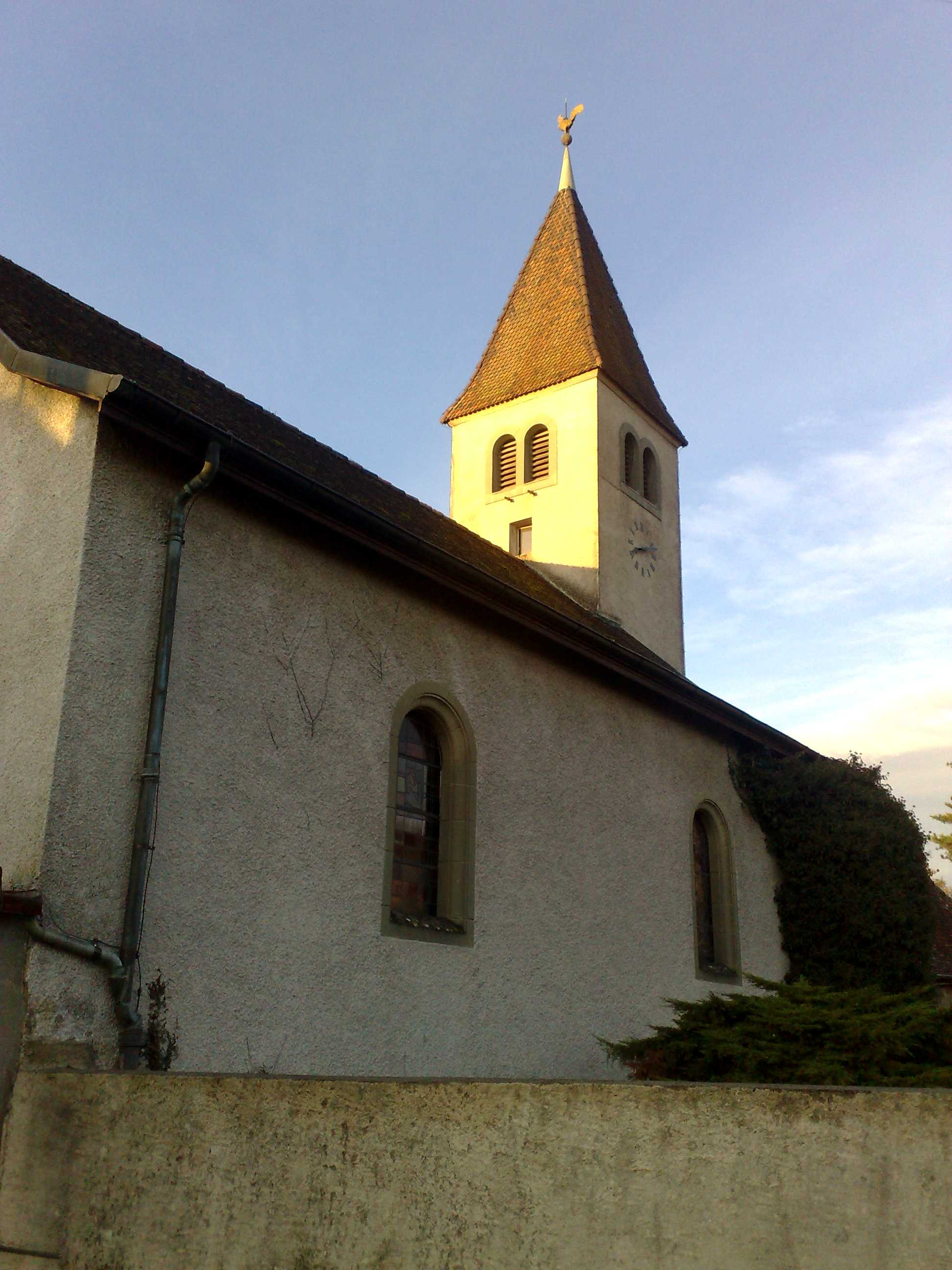 Church of Saint-Saphorin-sur-Morges, Canton canton of Vaud, Switzerland. Built in 1731.